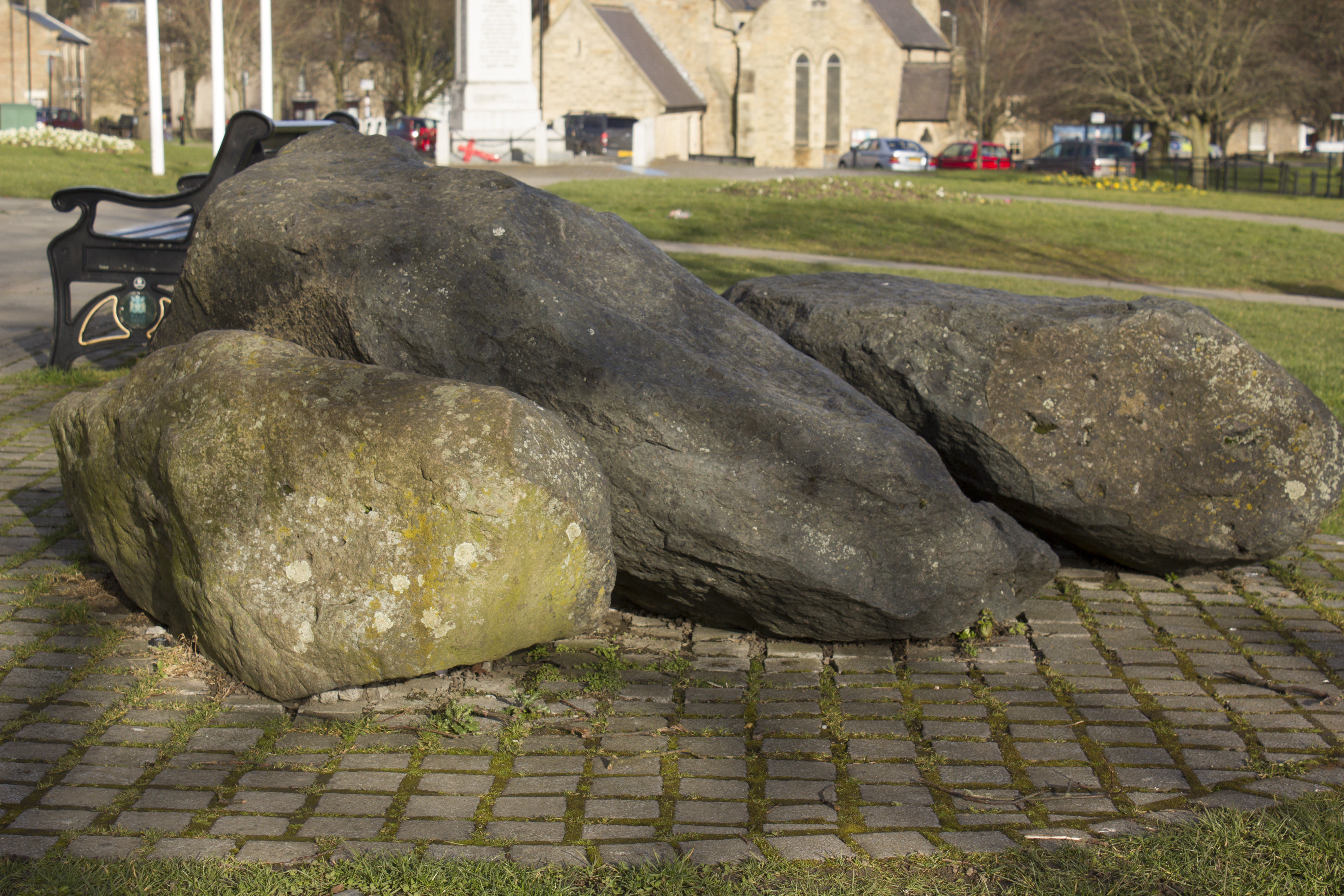 Erratic of Borrowdale volcanic. Originally located in Dowfold Hill, but was moved to the market place, near the Cenotaph.